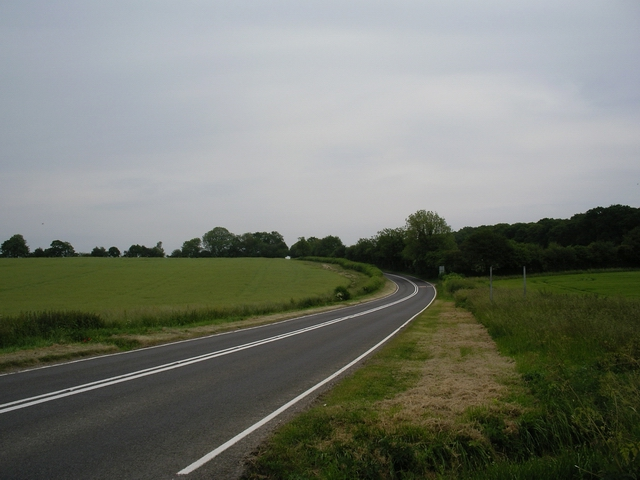 A272, Petersfield Road. Looking west along the A272 from the Durden Lodge crossroads